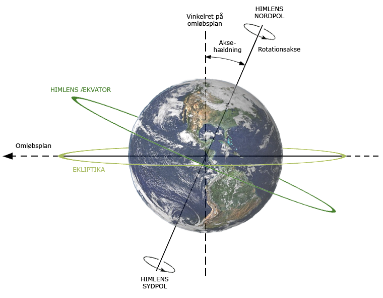 Description of relations between Axial tilt (or Obliquity), rotation axis, plane of orbit, celestial equator and ecliptic. Earth is shown as viewed from the Sun; the orbit direction is counter-clockwise (to the left).